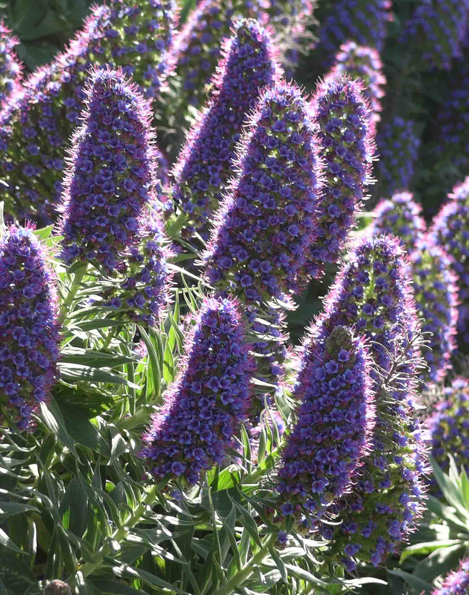 Echium candicans flowing on Bank's Peninsula, New Zealand